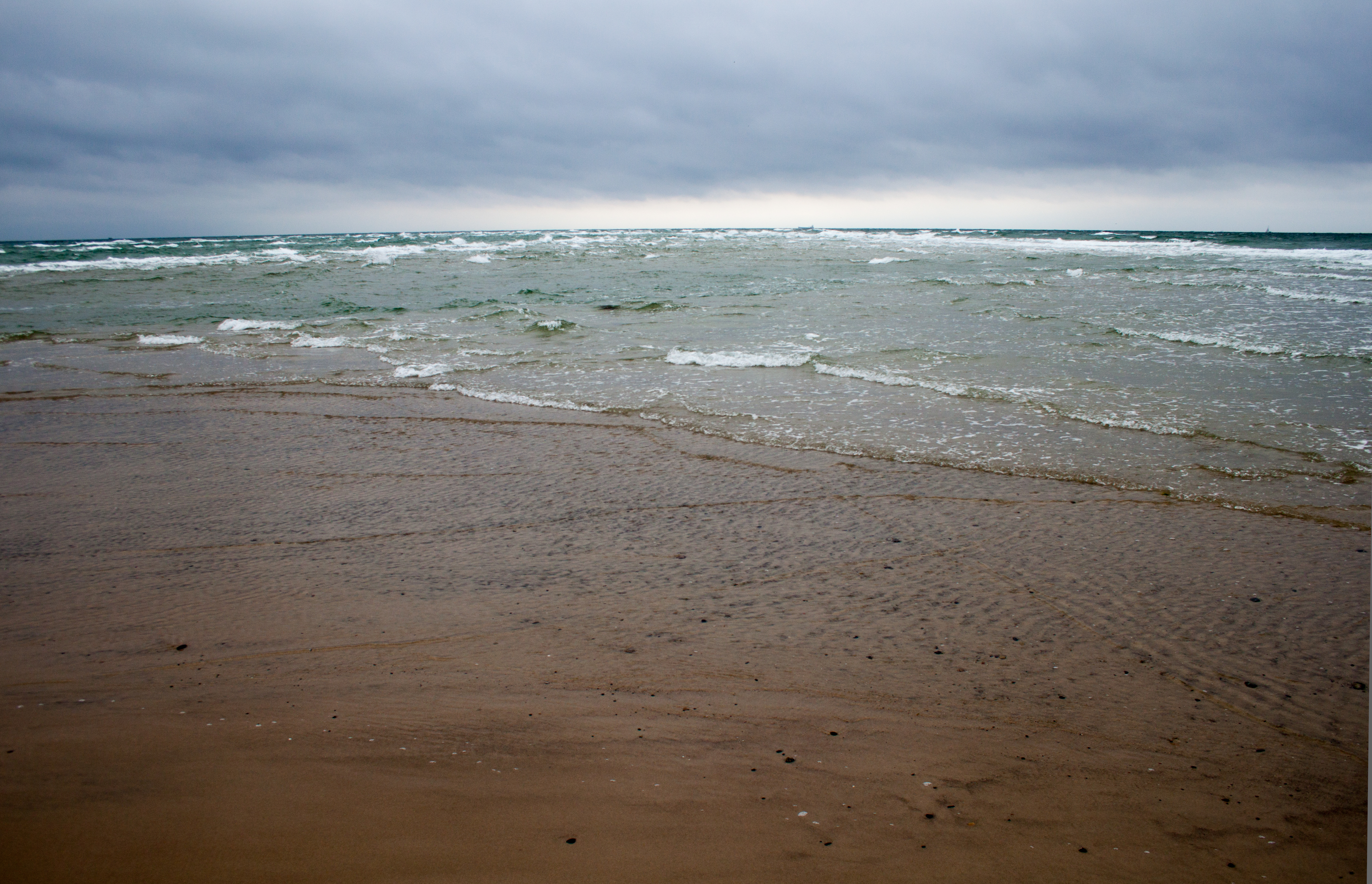 Grenen, meeting of the waters of the Skagerrak (left) and the Kattegat